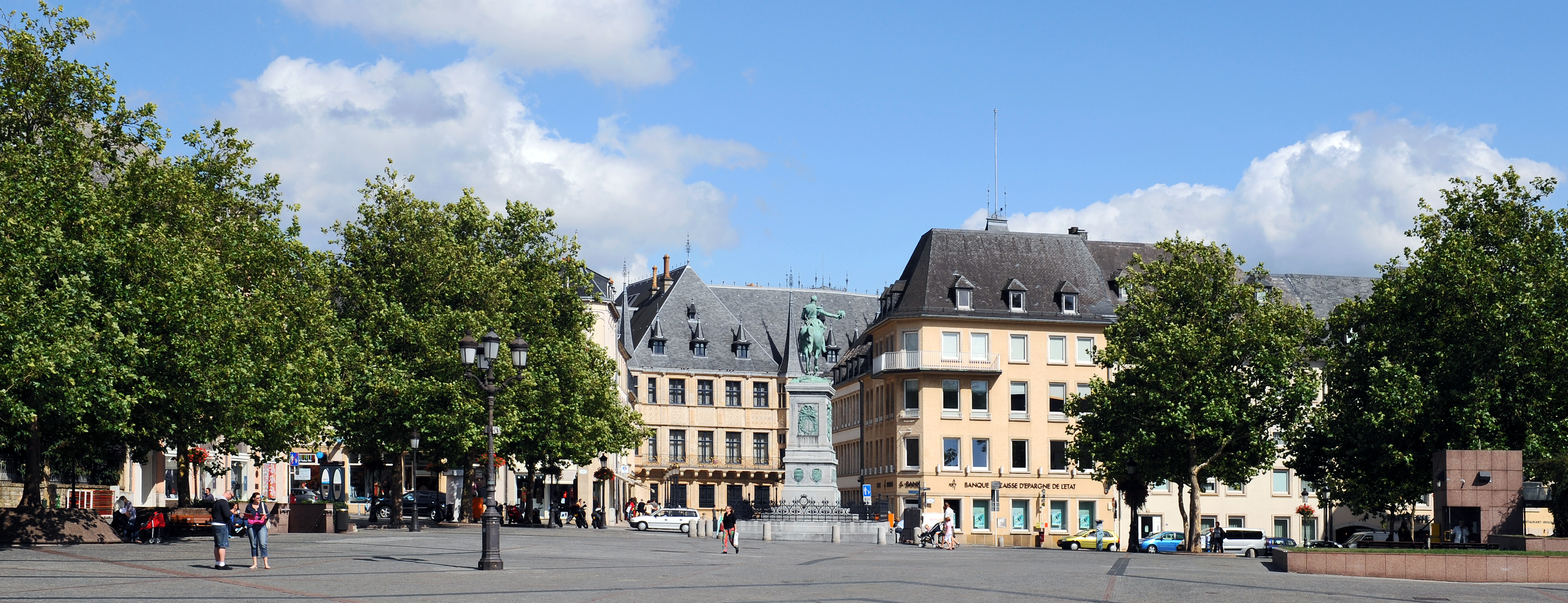 Luxembourg City: Square Guillaume II, with the statue of Guillaume II (1792-1849), king of the Netherlands and grand-duke of Luxembourg